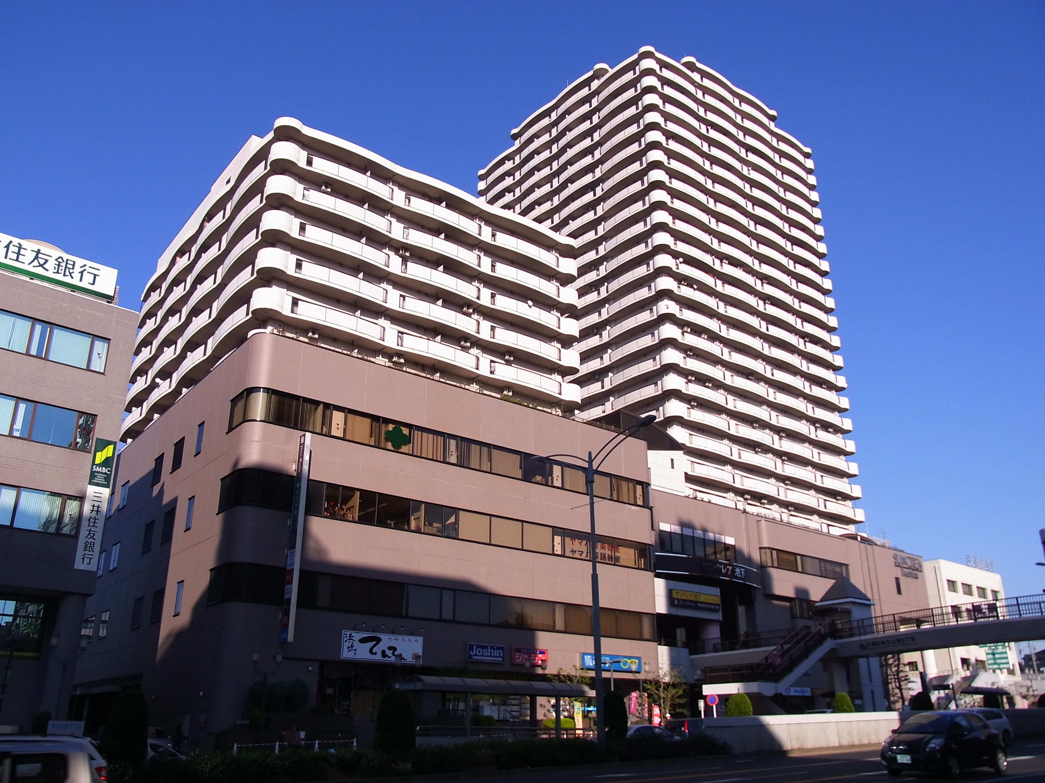 SUNCREA Ikeshita in Chikusa-ku, Nagoya city.